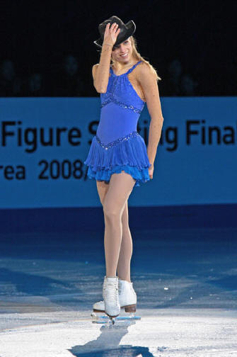 Carolina Kostner during her exhibition program at the 2008-2009 Grand Prix Final.